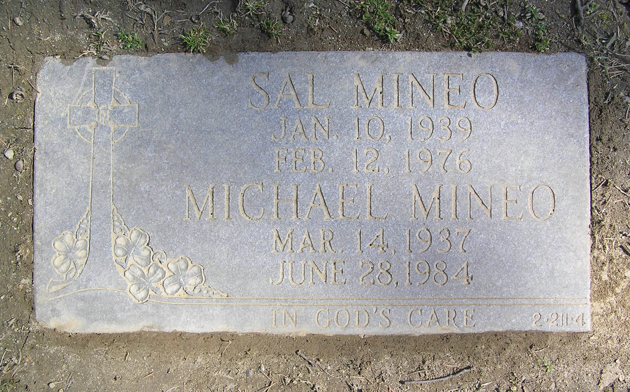 I took this photograph of the grave of Sal Mineo in the Gate of Heaven Cemetery on April 9, 2007. GNU Free Documentation License